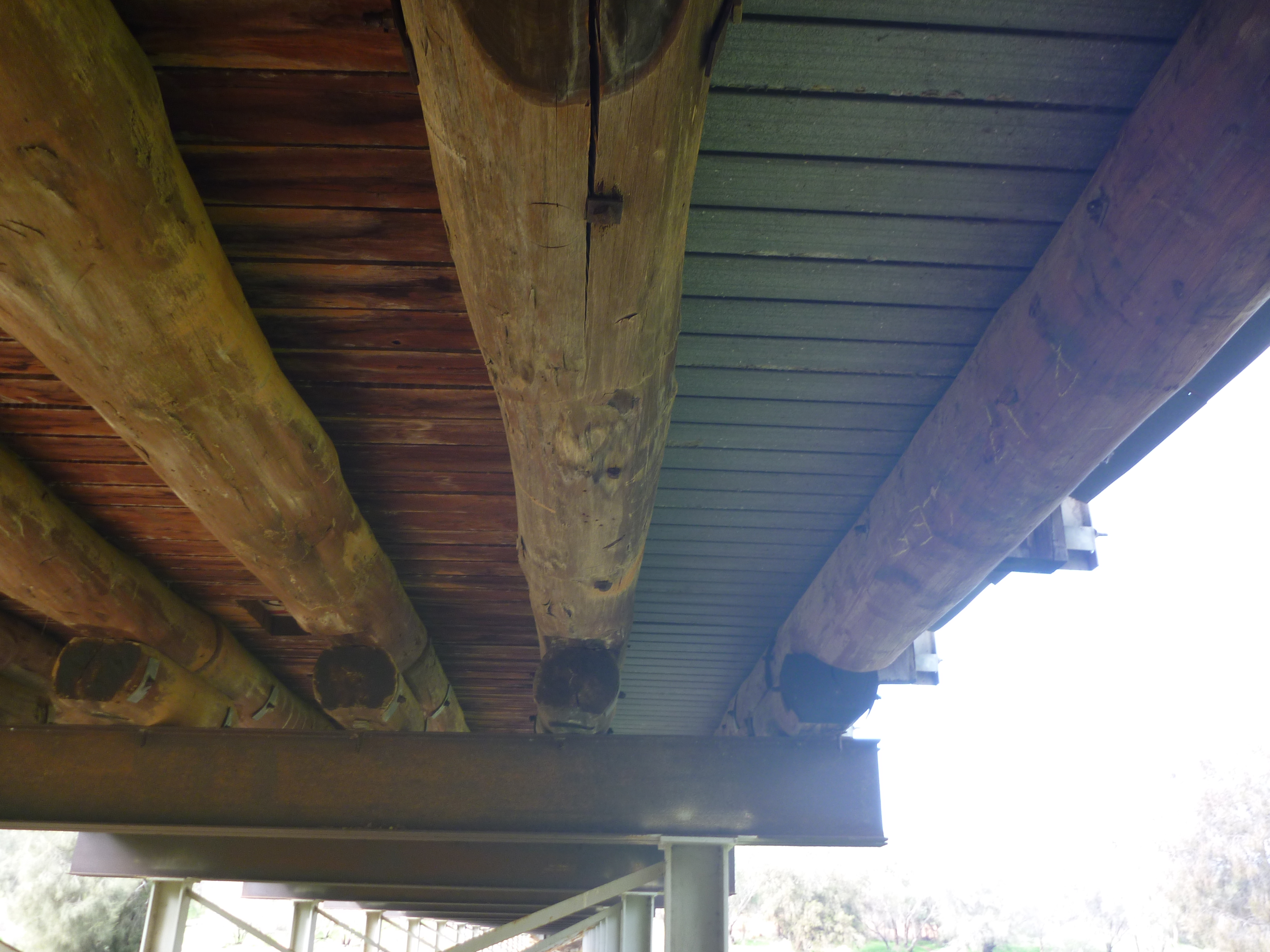 The underside of the West Toodyay Bridge, showing the older timber decking on the left and the newer (1985) steel decking on the right.